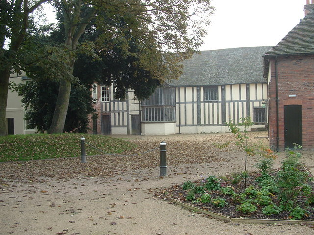 The Commandery, Worcester North front of the Great Hall built 1470 showing its fine large polygonal bay window with arched lights and a view of the courtyard from the garden.